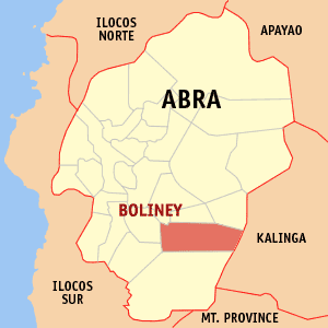 Map of Abra showing the location of Boliney